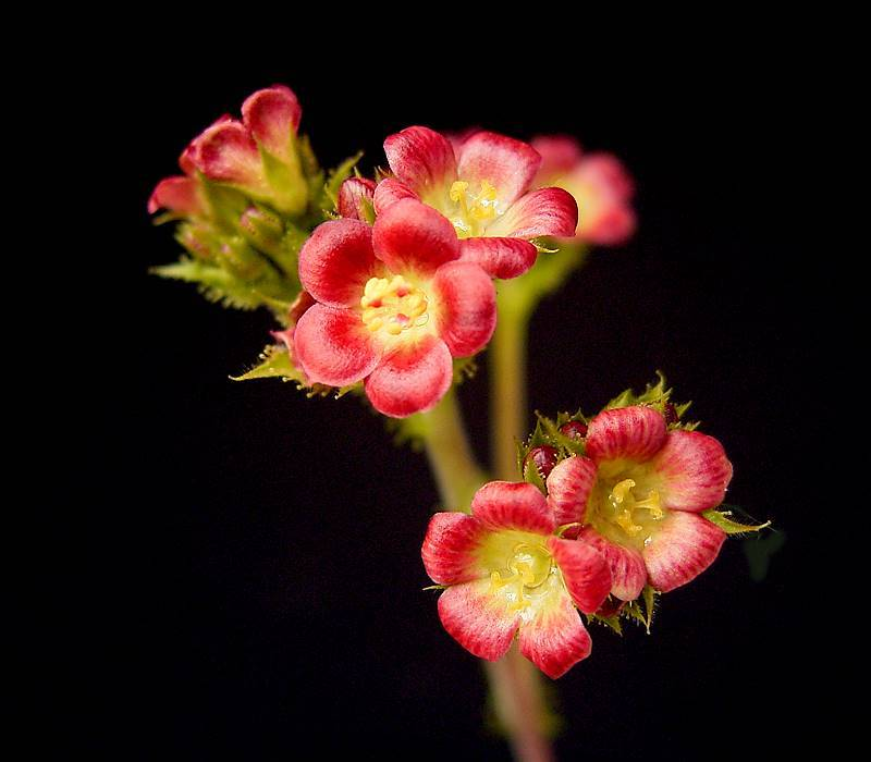 Jatropha gossypiifolia